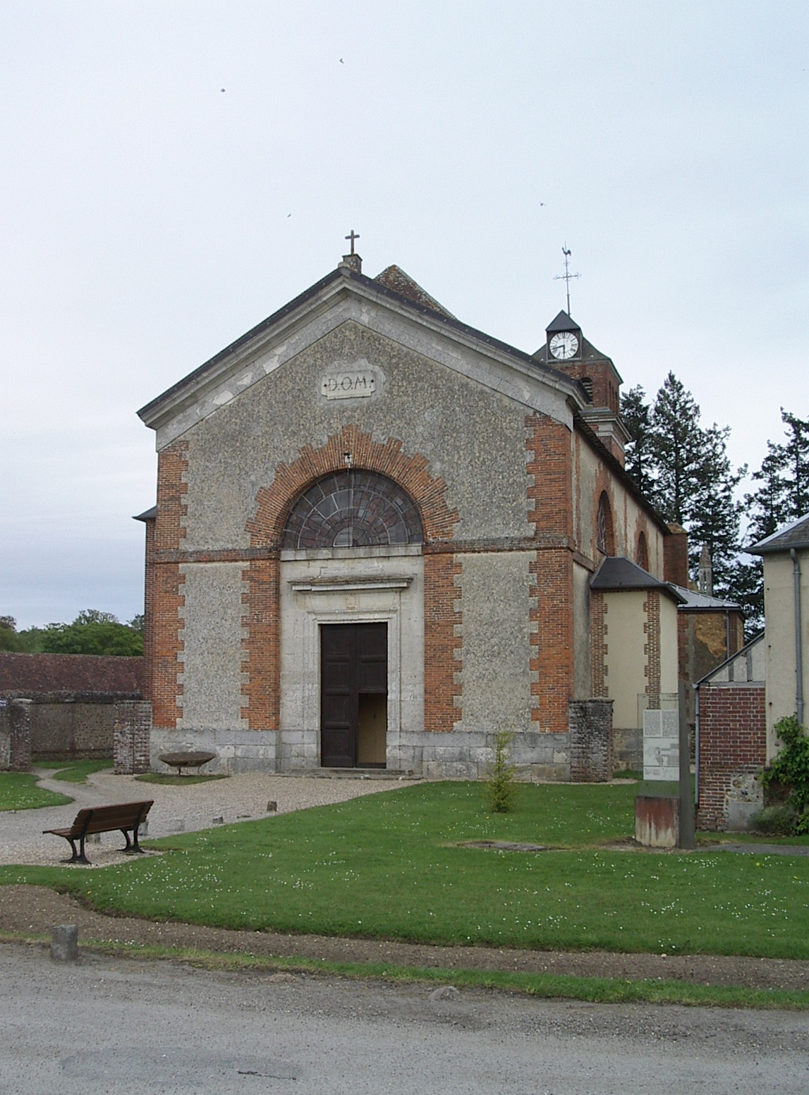 Churches of Beaumesnil (Eure)